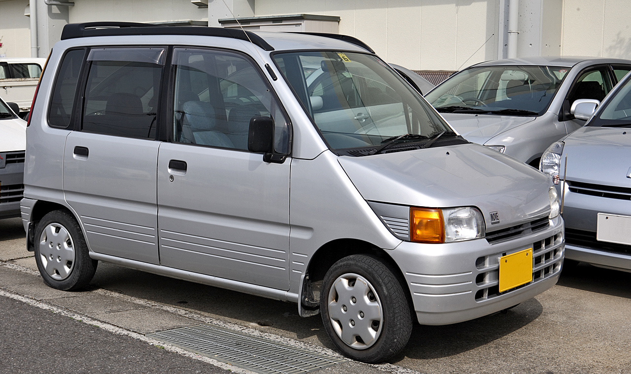 Daihatsu Move ( L600S )